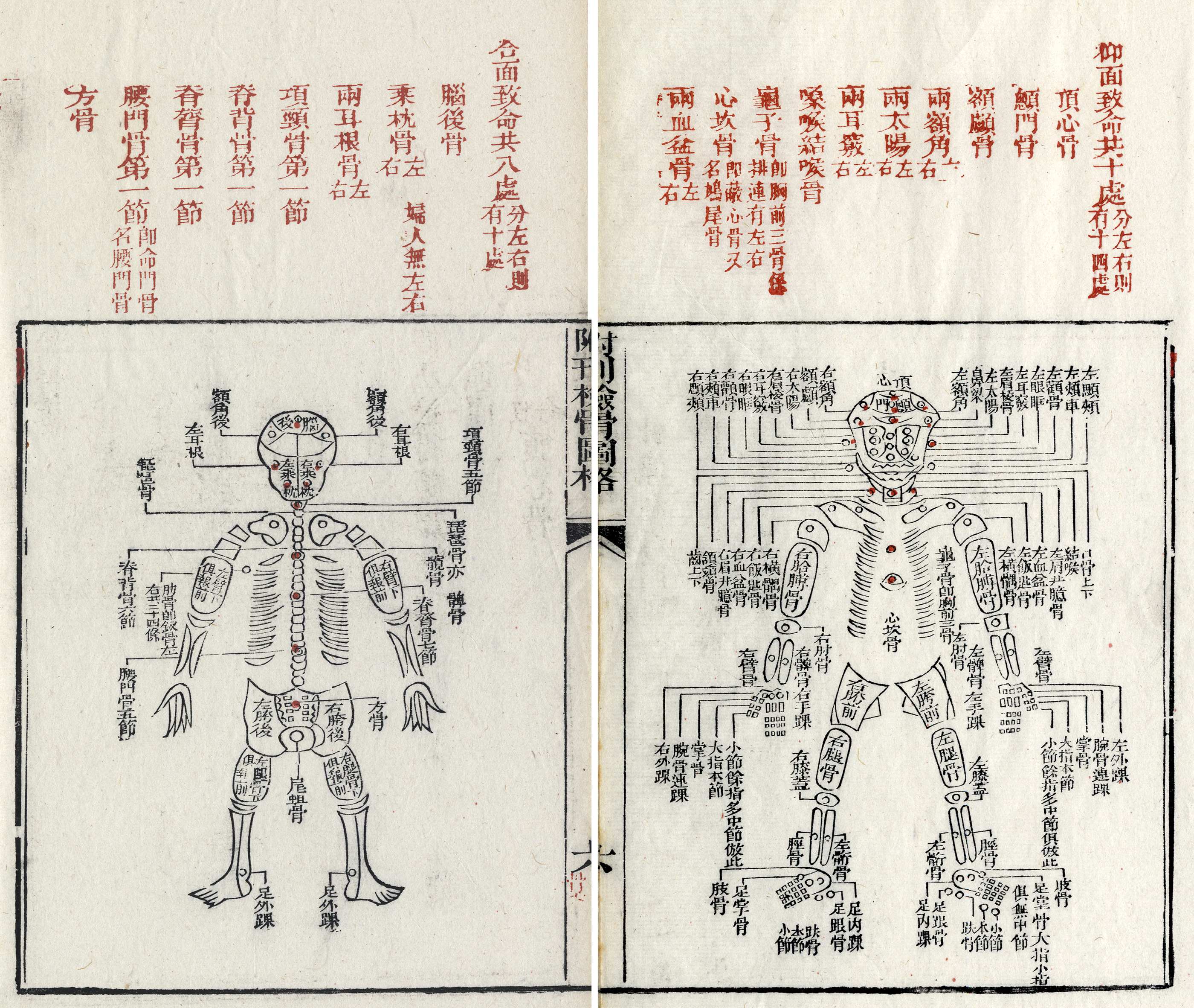 Nomenclature of human bones in Song Ci: ‘Collected records on washing away of unjust imputations’ (Sòng Cí: Xǐ-yuān lù jí-zhèng, 1843 edition, edited by Ruǎn Qíxīn.